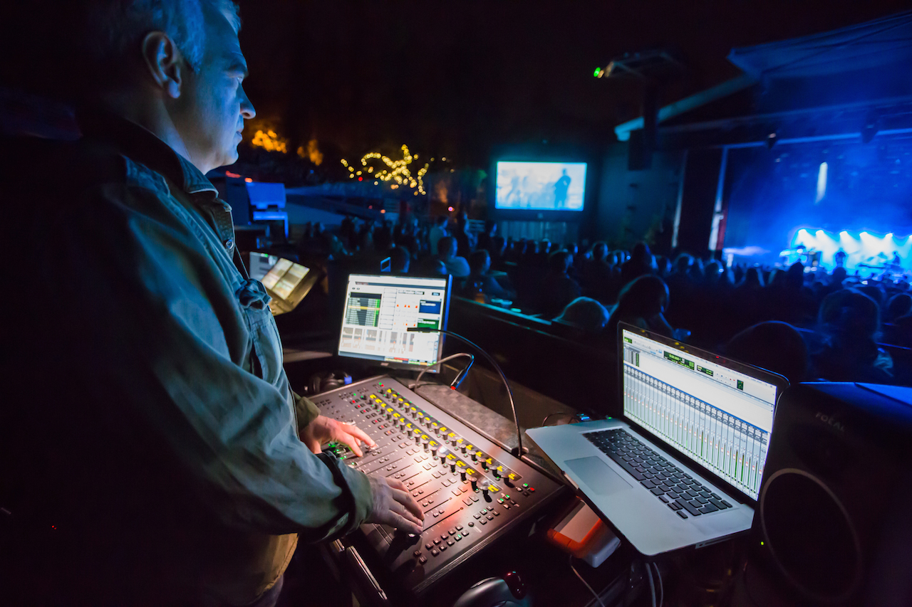 Robb Allan mixing Massive Attack on digidesign Venue S3L-X